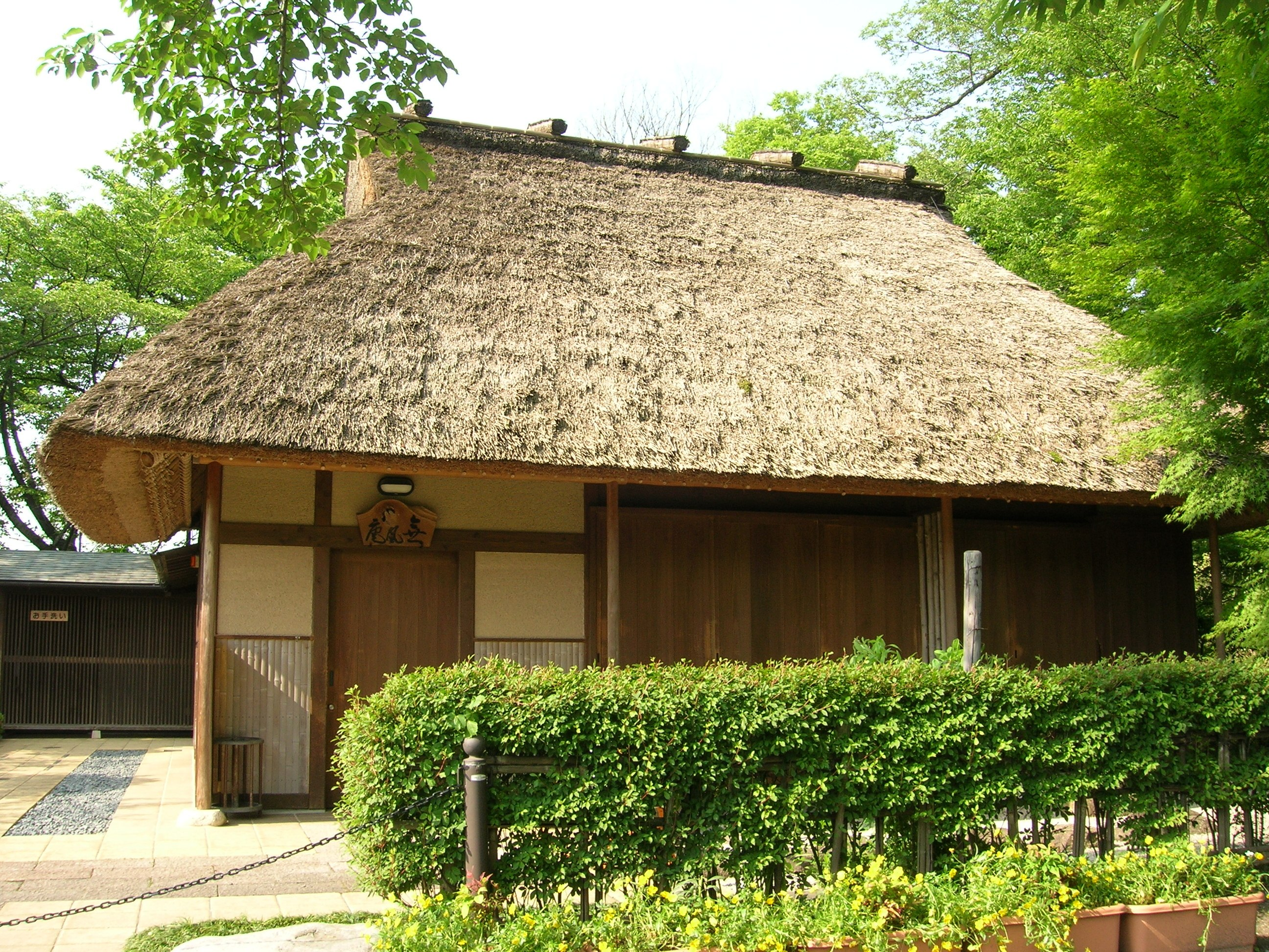 Mufū-ann. Loc: Seto city general sports park, Kariya city, Aichi Prefecture, Japan. 無風庵（小原村にあった藤井達吉の工房を移築したもの） 撮影場所 愛知県瀬戸市